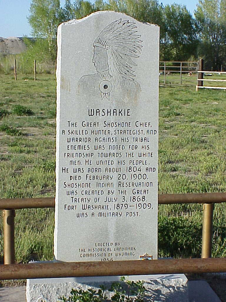 Photo of the headstone for Chief Washakie on the Wind River Reservation at Ft. Washakie, Wyoming.